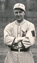 Ralph Mattis playing for the Pittsburgh Rebels.